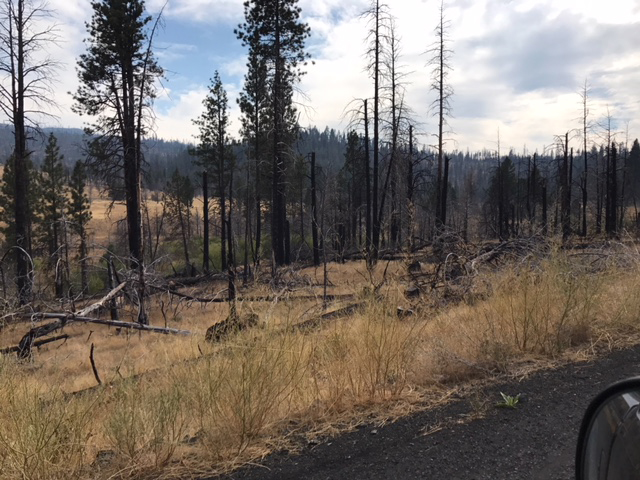 Stands of burned ponderosa pine as seen on road to Dog Lake